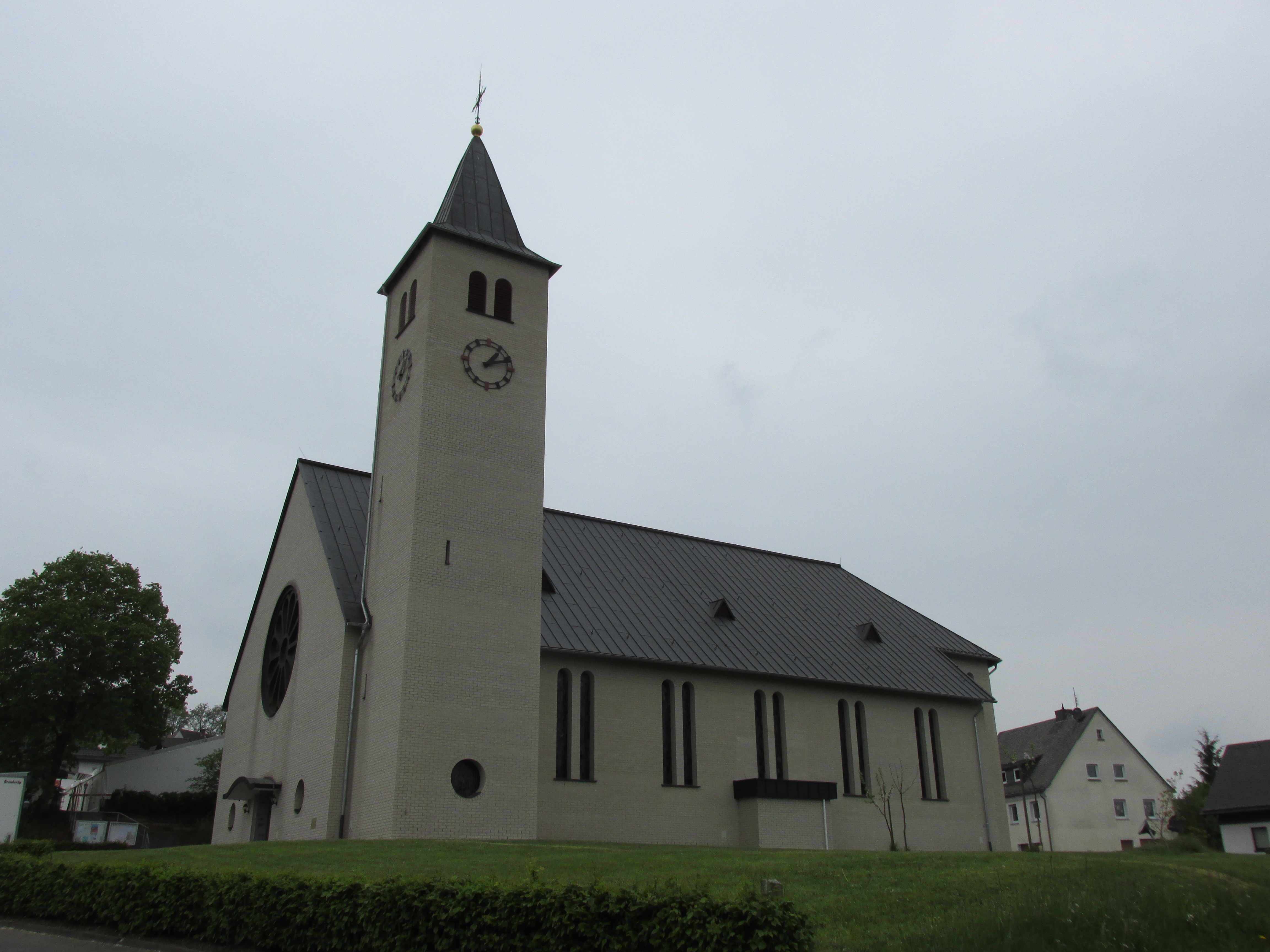 St. Mary church, Altenhof, Wenden, Germany check usage